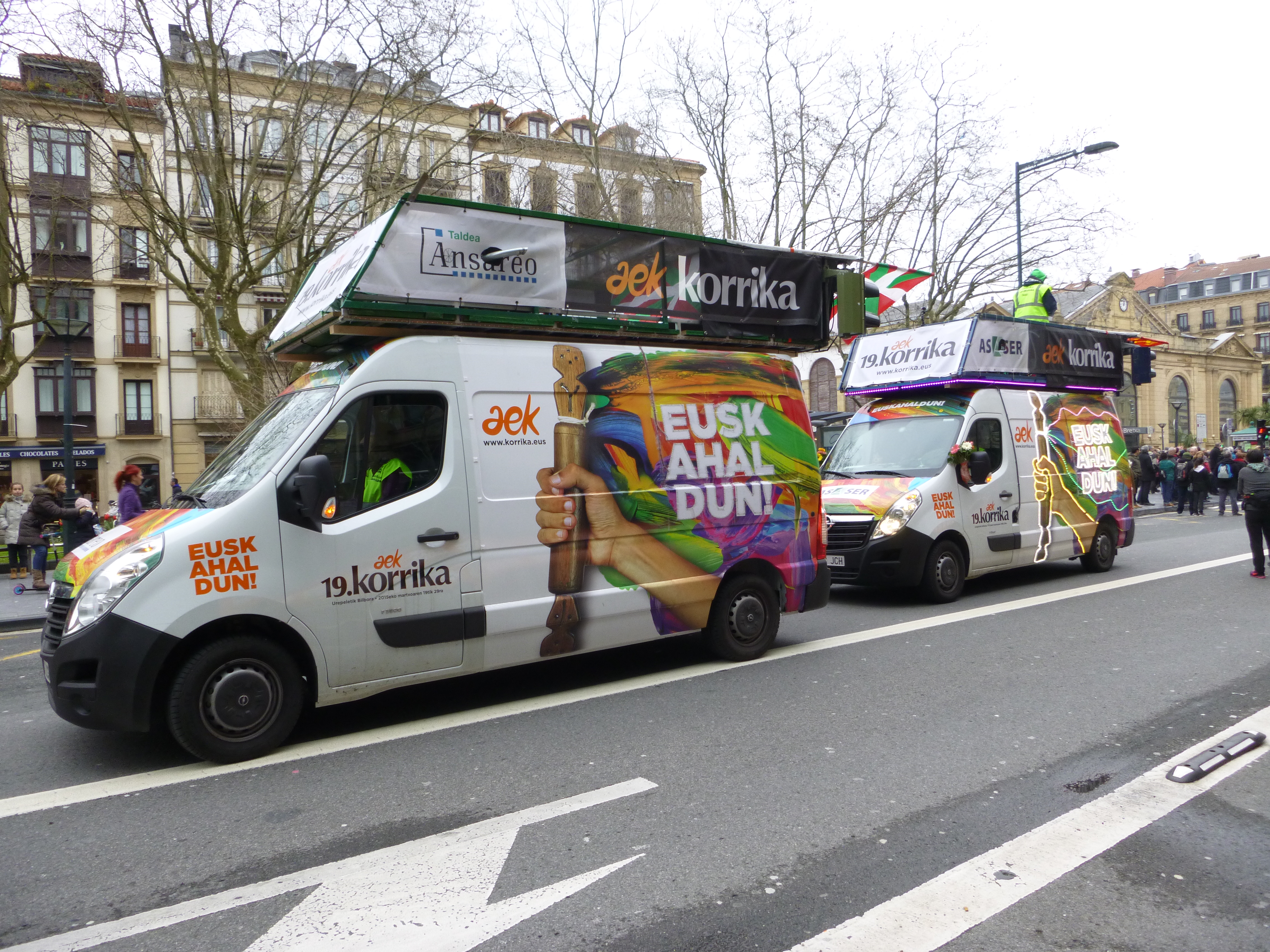 Vans leading Korrika festival.